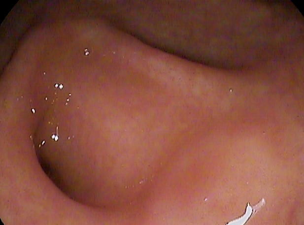 Vermiform appendix, (colonoscopy lower right)